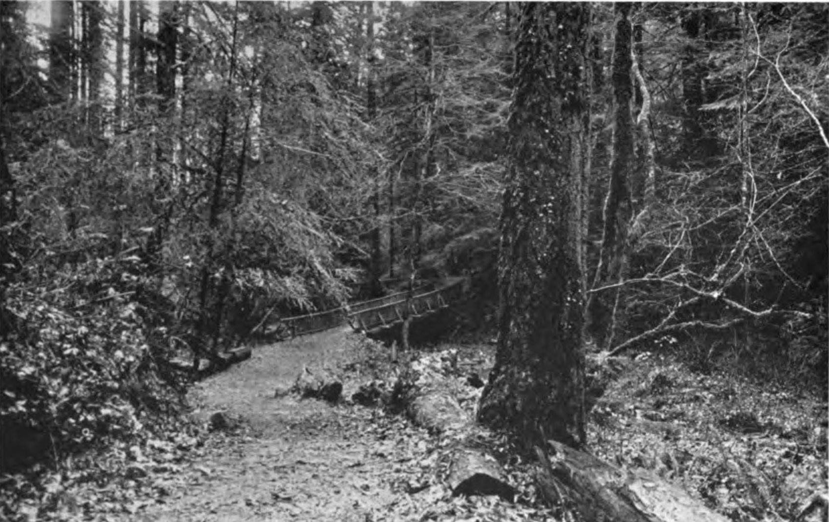 MacLeay Park, now part of Forest Park (Portland, Oregon)